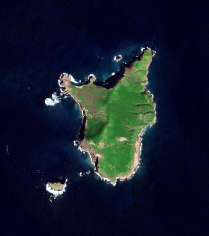 Date: 2019-02-11 Sensor: MSI on Sentinel-2B Resolution: 10m RGB Composites: True color, Band 4-3-2